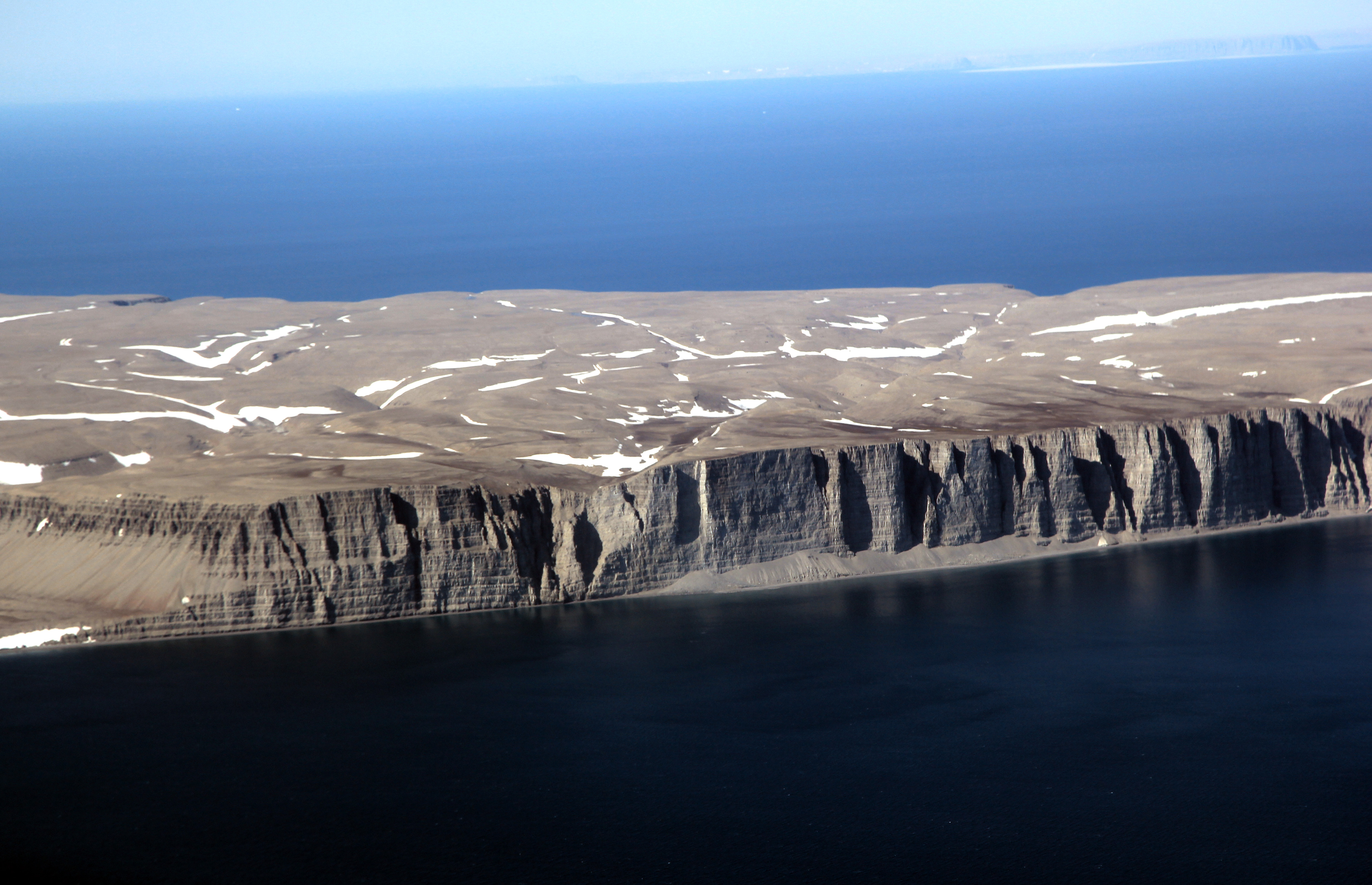 looking west towards the island